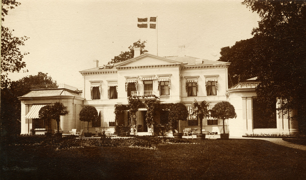 Villa Adelaïde in Ordrup, home of Jacob Moresco. Location where Leaving the Table, 1906 painting by Laurits Tuxen, took place. Demolished.